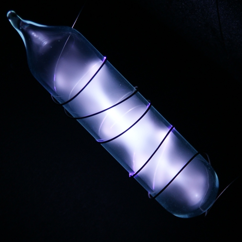 Vial of glowing ultrapure deuterium, D2. Original size in cm: 1 x 5